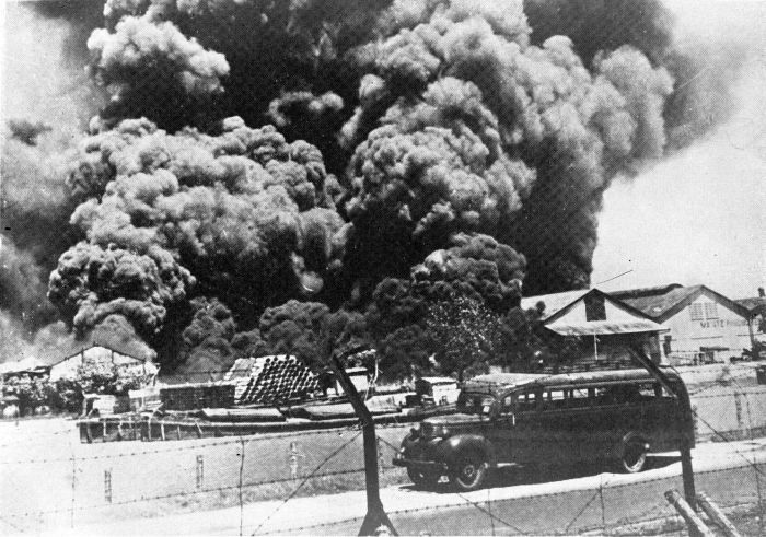 The Dutch-Indian army destroys naval installations in Surabaya, before the Japanese landed